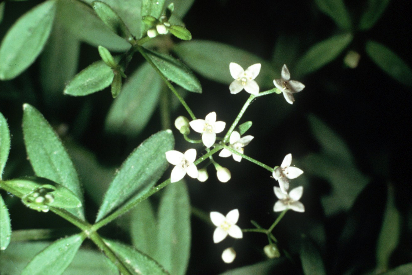 Galium obtusum Bigelow - bluntleaf bedstraw